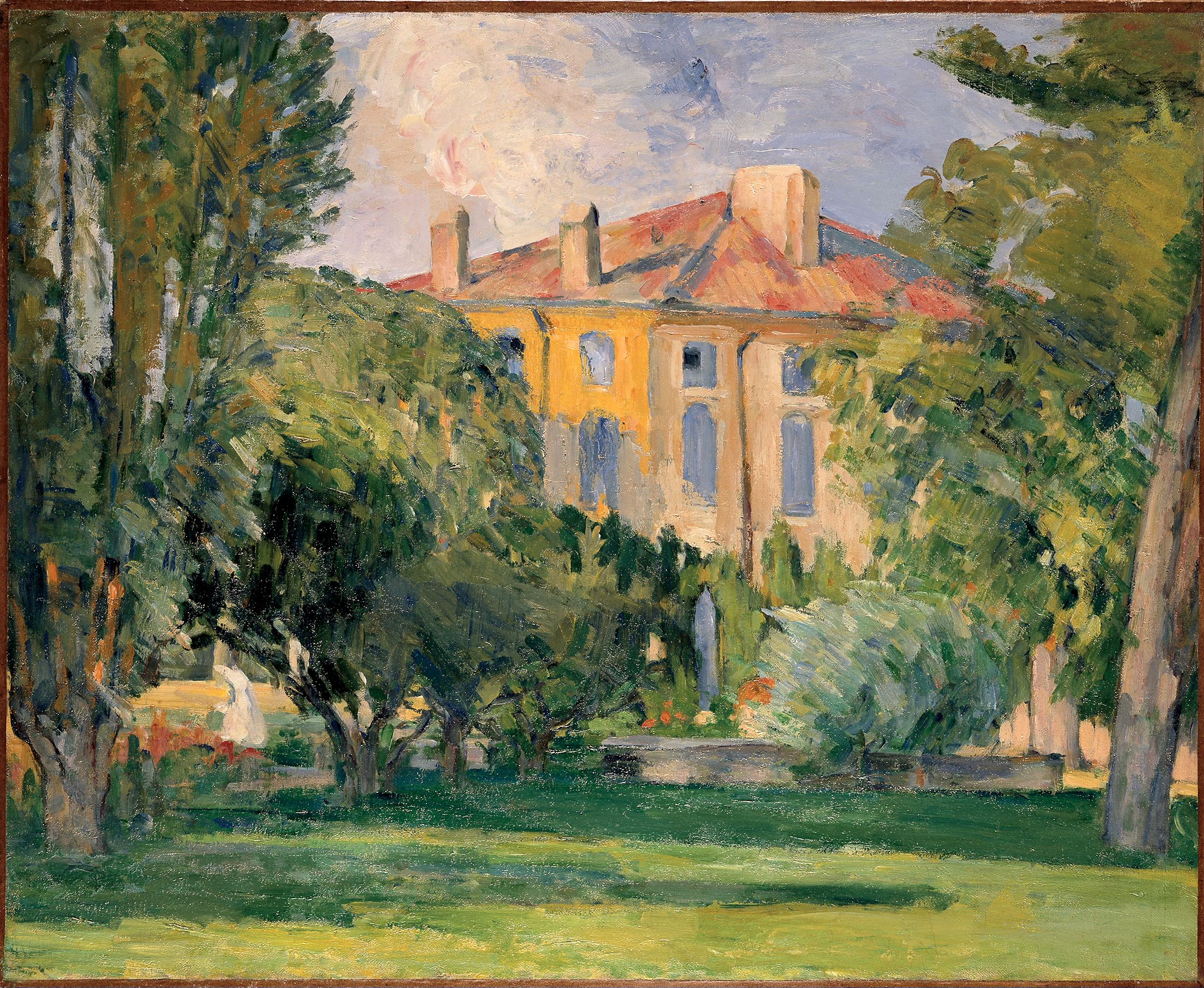 From the National Gallery of Art: This is one of the first Provençal paintings in which Cézanne applied the bright palette and free handling he had developed in Paris with Pissarro and the impressionists during the 1870s. The work was most likely executed in the summer of 1874, soon after Cézanne had returned home from Paris. He had written his parents that he hoped his father would finance a long stay at home in Aix: "I shall be very happy to work in the South, where the views offer so many opportunities for my painting."